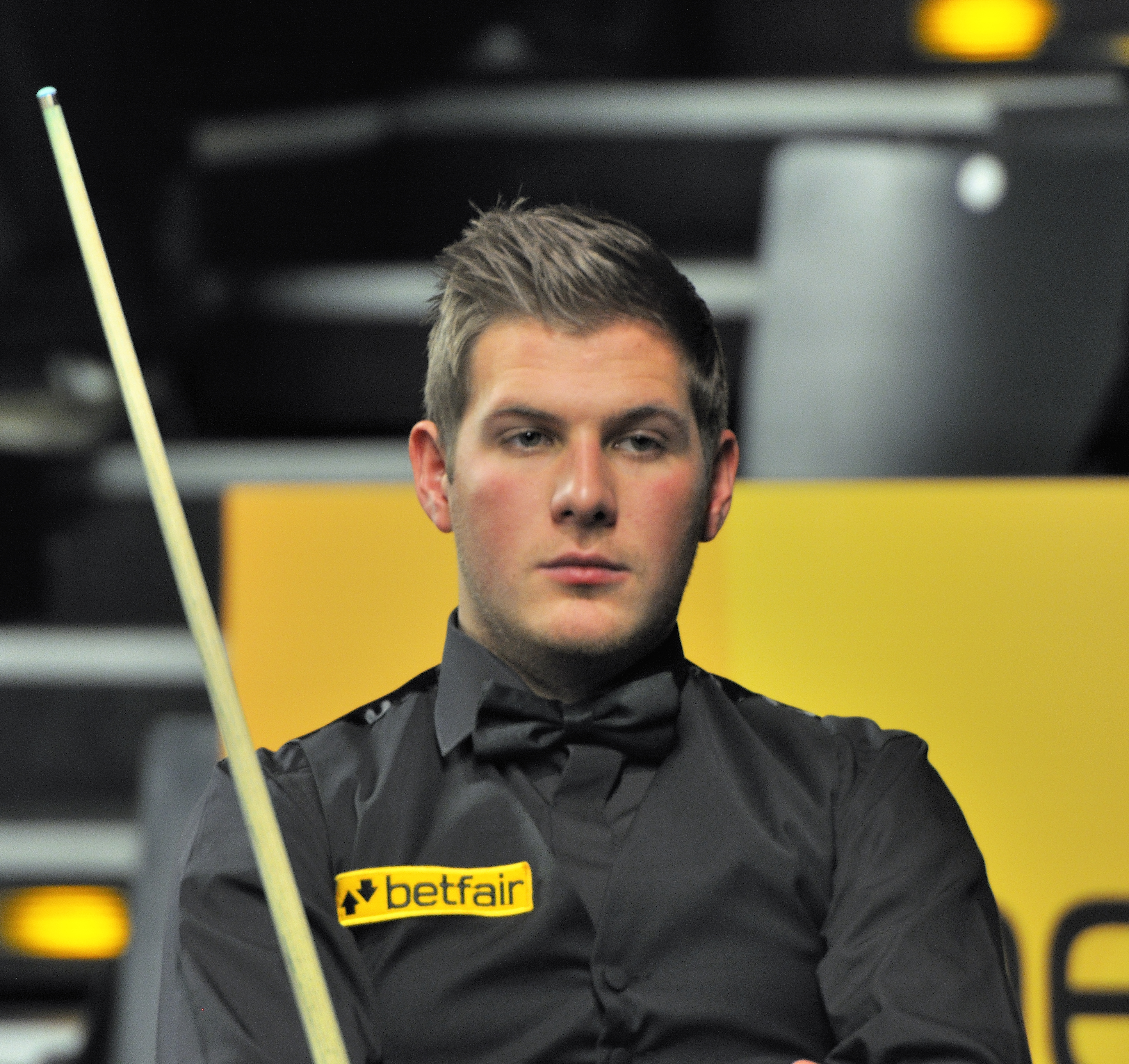 Picture taken in Berlin during the Snooker German Masters in 2013. Daniel Wells.